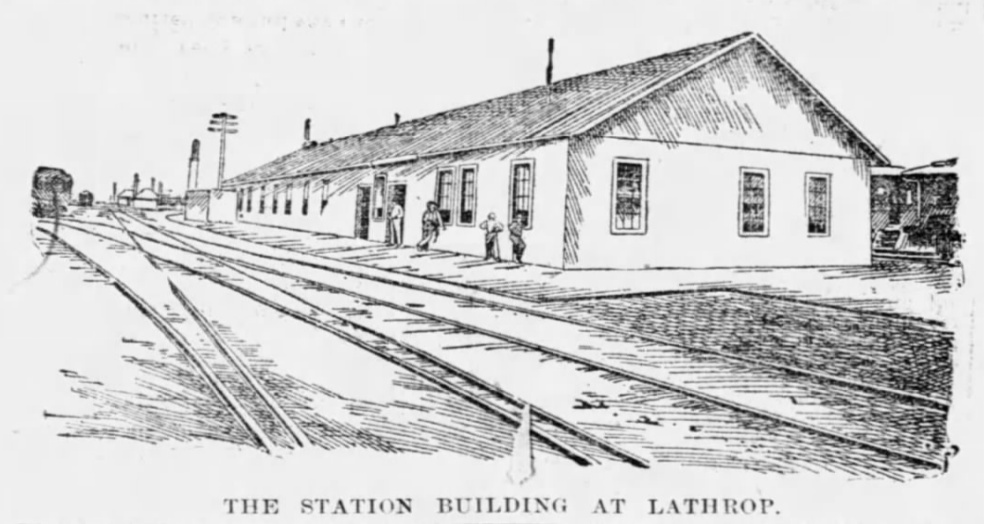 Lathrop, California rail road station, site of the death of Judge David S. Terry, shot by U.S. Marshal David Neagle on August 14, 1889